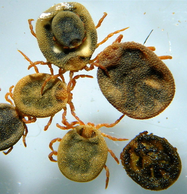 Collection and morphology of N. namaqua. A) The crevice from which specimens were collected. B) A specimen concealed on a rock obtained from within the crevice. C) A dorsal view of an unfed female that shows the pseudo-scutum and ventral mouthparts. D) The same tick shown as an engorged female still attached to a lizard. E) Size range and general morphology of the collected live specimens. The black arrow indicates the tick selected for dissection from which lizard DNA was extracted. F) A dissected female with midgut that indicates it's recently fed status. G) A Giemsa stained smear obtained from the gut contents of the dissected female.